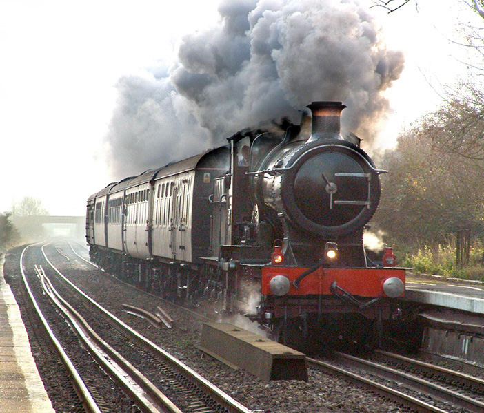 This picture is of a centenery year run by ex GWR engine "City of Truro". The train was passing through Highbridge, Somerset en route to Bristol mid-afternoon early in November 2004 in fading light. The date given here does not coincide with that shown in the camera technical details - the batteries were hurriedly changed and the camera date record was not reset. In 1904 the engine, number 3440, designed by G.J. Churchward had reached a then record speed of 102.3 mph.